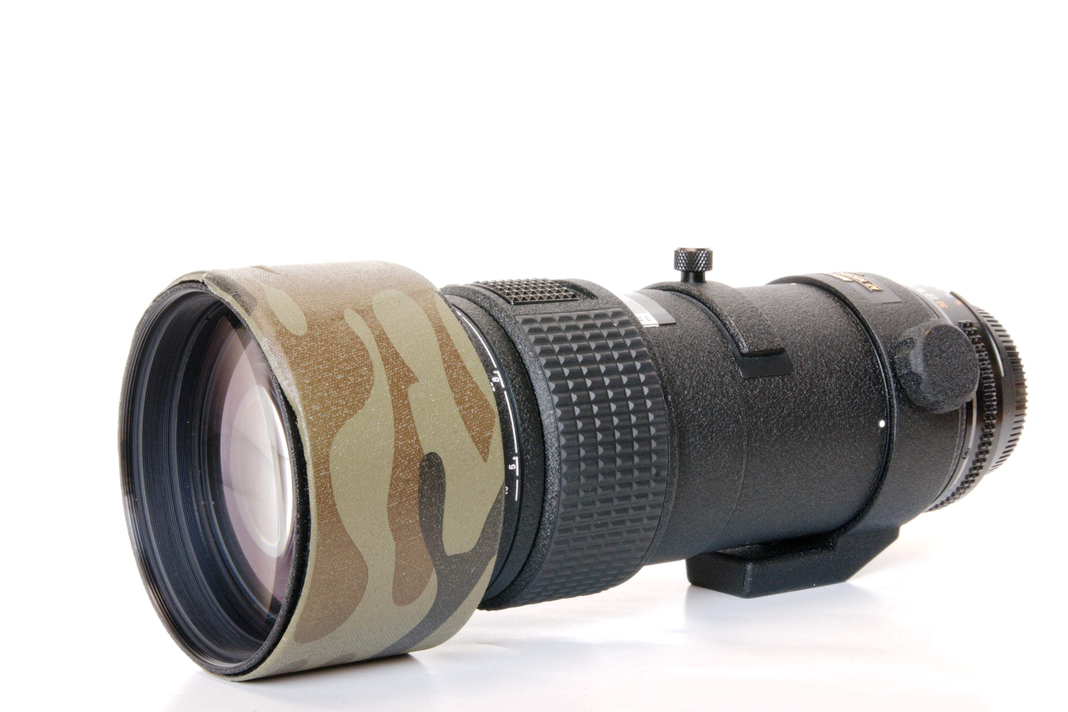 Nikkor AF 300mm f/4 ED with camouflage gaffer tape (for nature photography) on the built-in sliding telescopic lens hood.